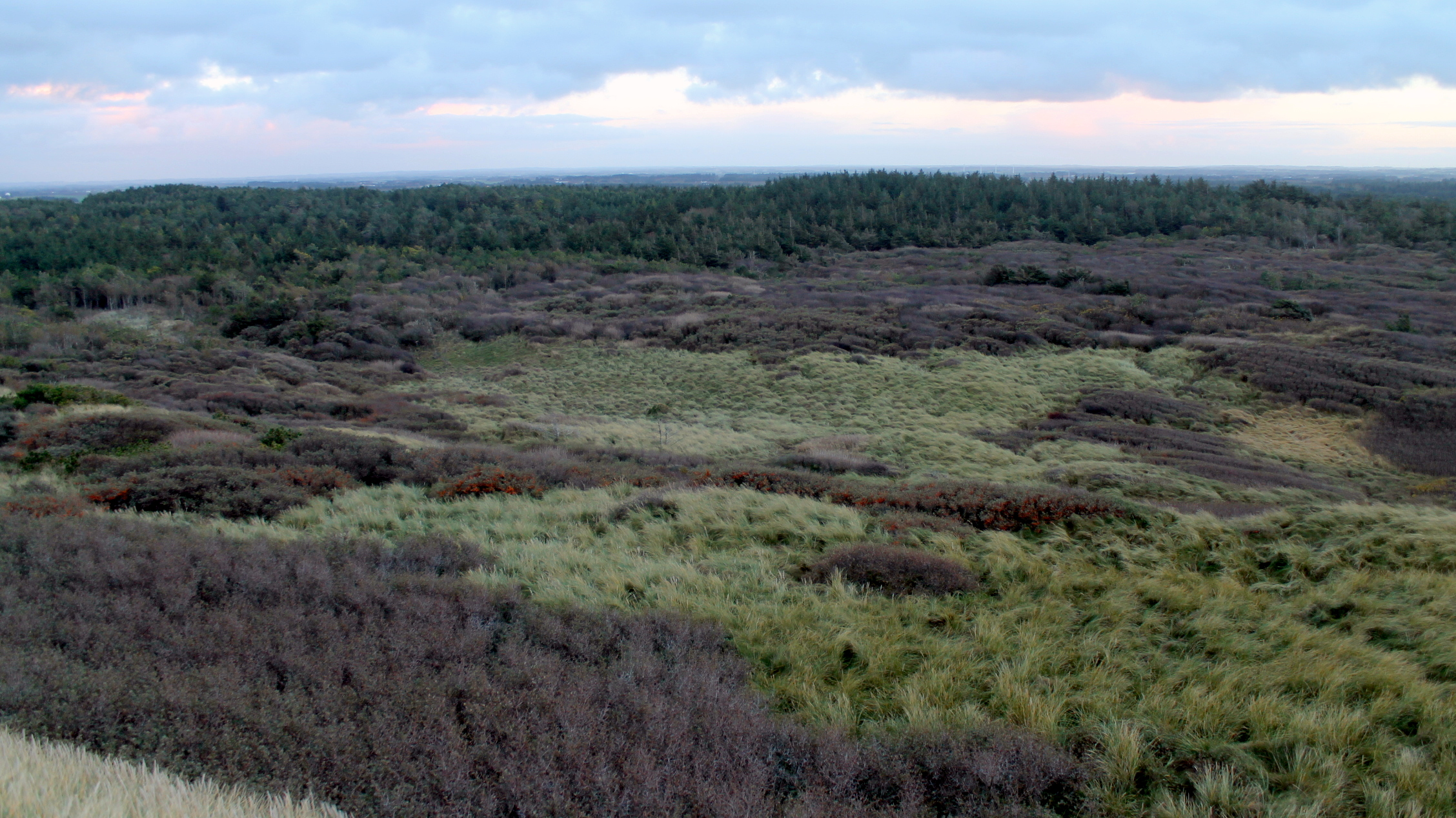 The Rubjerg Knude forest plantation in Denmark